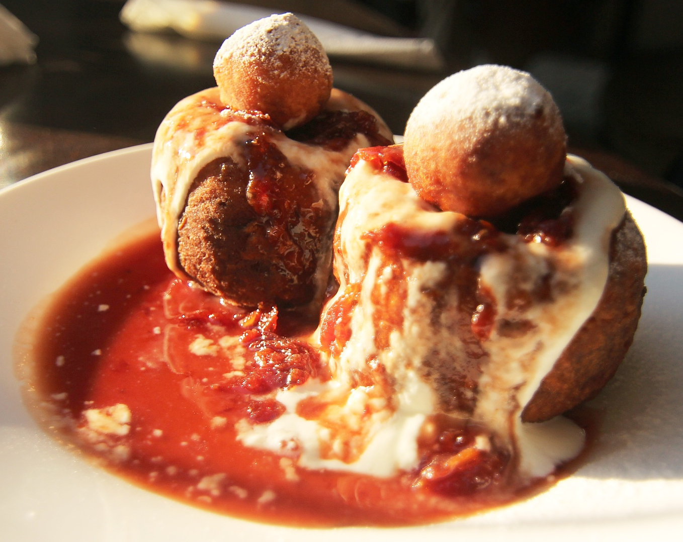 Papanași with sour cherries and sugar powder